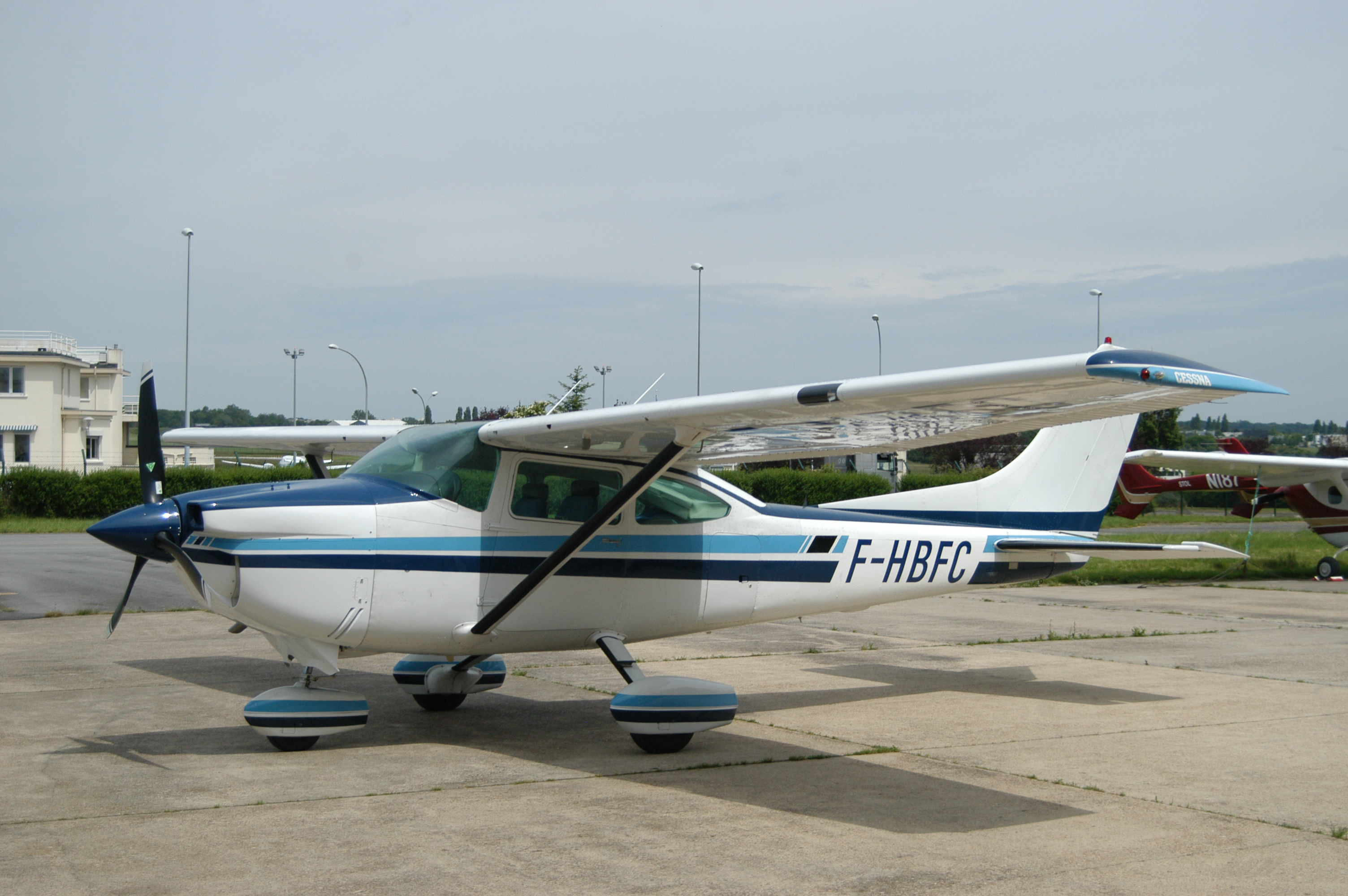 F-HBFC is a 1980 Cessna 182Q originally fitted with a Continental O-470 engine which has been retrofitted with an SMA SR305-230 engine. The cowling has been changed to accommodate the new engine with improved air inlets.